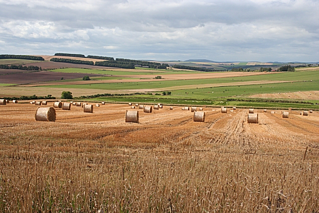 Tifty Burn The burn itself is not actually visible, being hidden by the vegetation on its banks. Its course is along the far side of the nearest field.